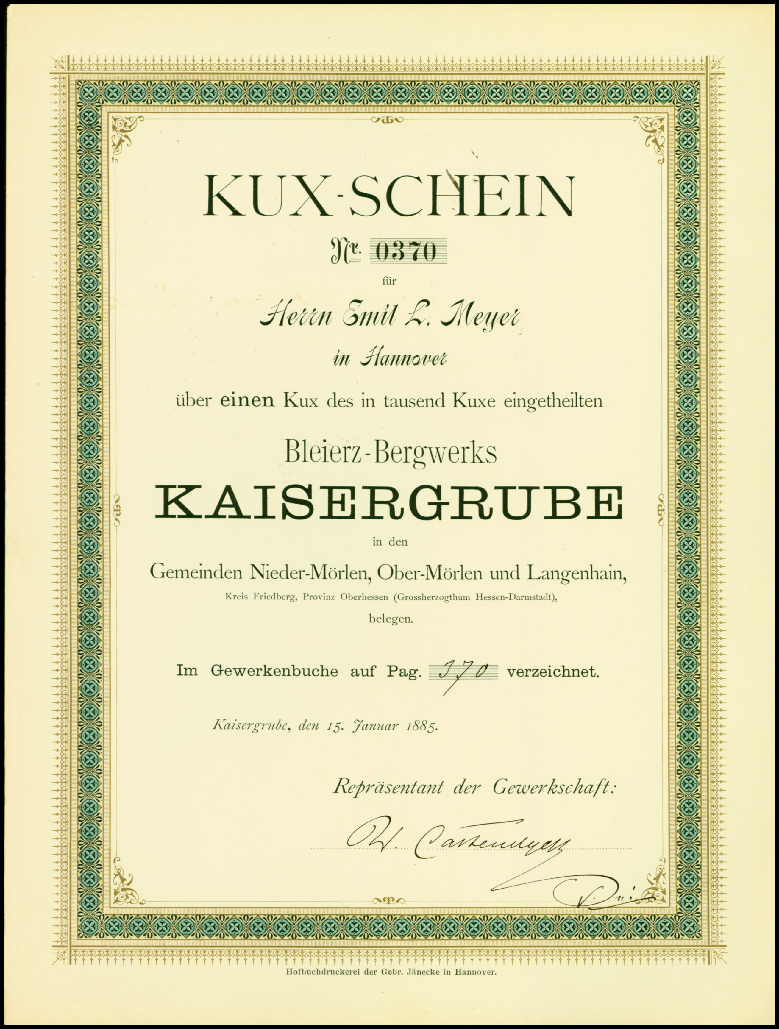 Mining Share of the Bleierz-Bergwerk Kaisergrube, issued 15. January 1885